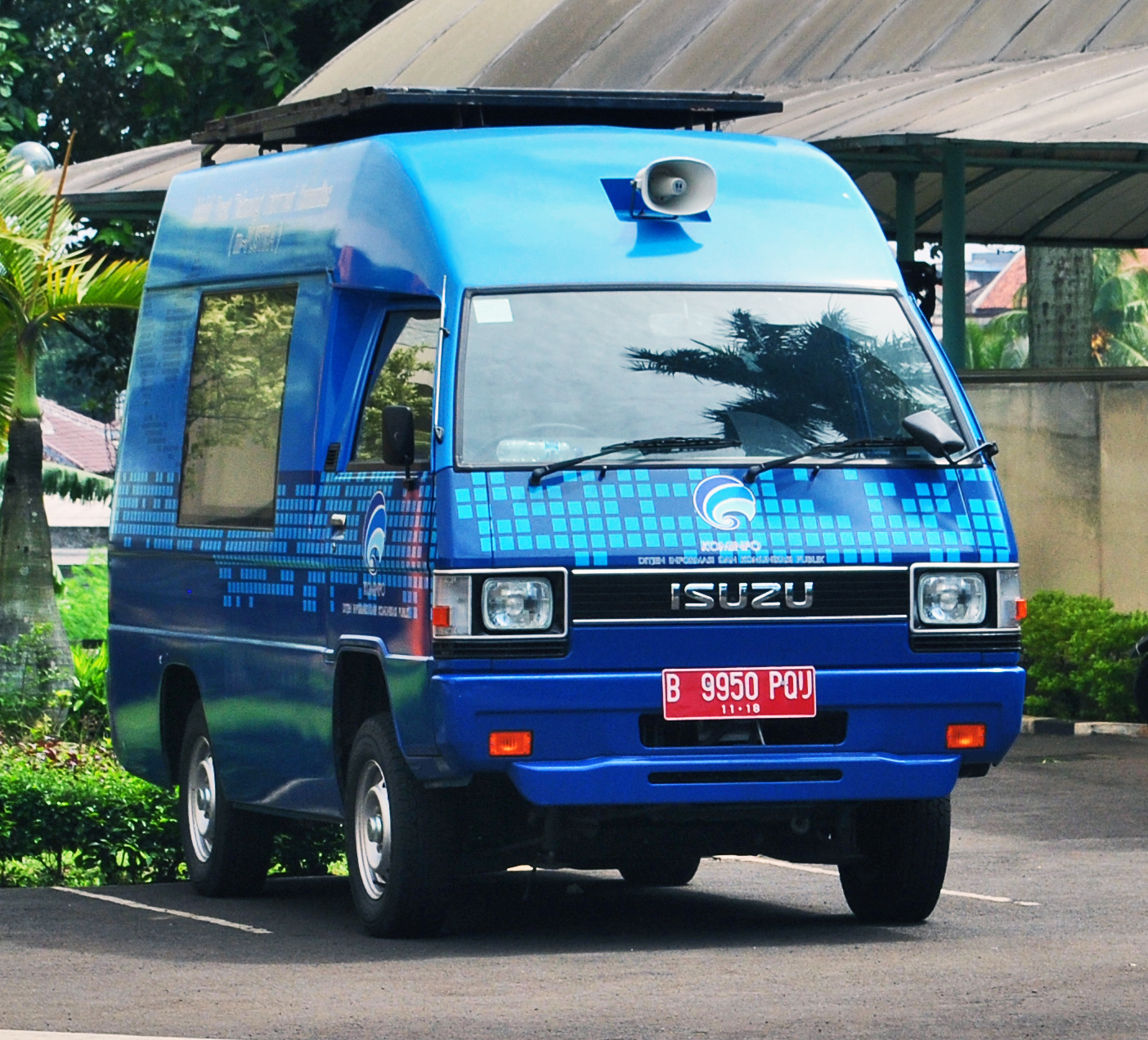 Isuzu Bison, a rebadge of Mitsubishi Colt L300, in service for Menkominfo, parked at Museum Penerangan of Taman Mini Indonesia Indah, Jakarta, Indonesia.